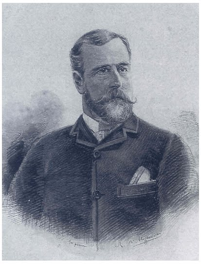 Portrait of Emanuele Ruspoli (Rome, December 30, 1838 – November 29, 1899)